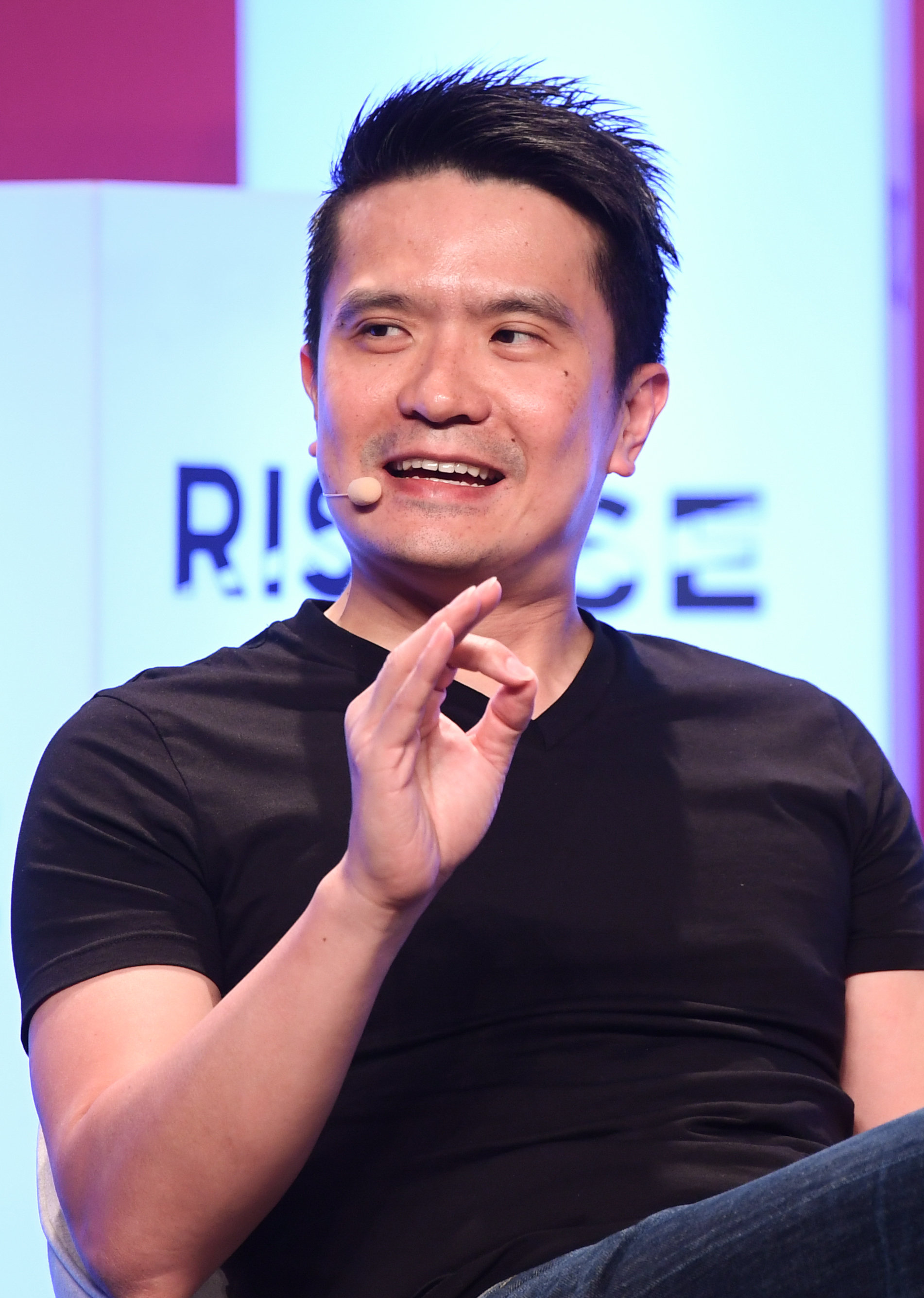 9 July 2019; Min-Liang Tan, Co-founder & CEO, Razer, on Centre Stage during day one of RISE 2019 at the Hong Kong Convention and Exhibition Centre in Hong Kong. Photo by Stephen McCarthy/RISE via Sportsfile